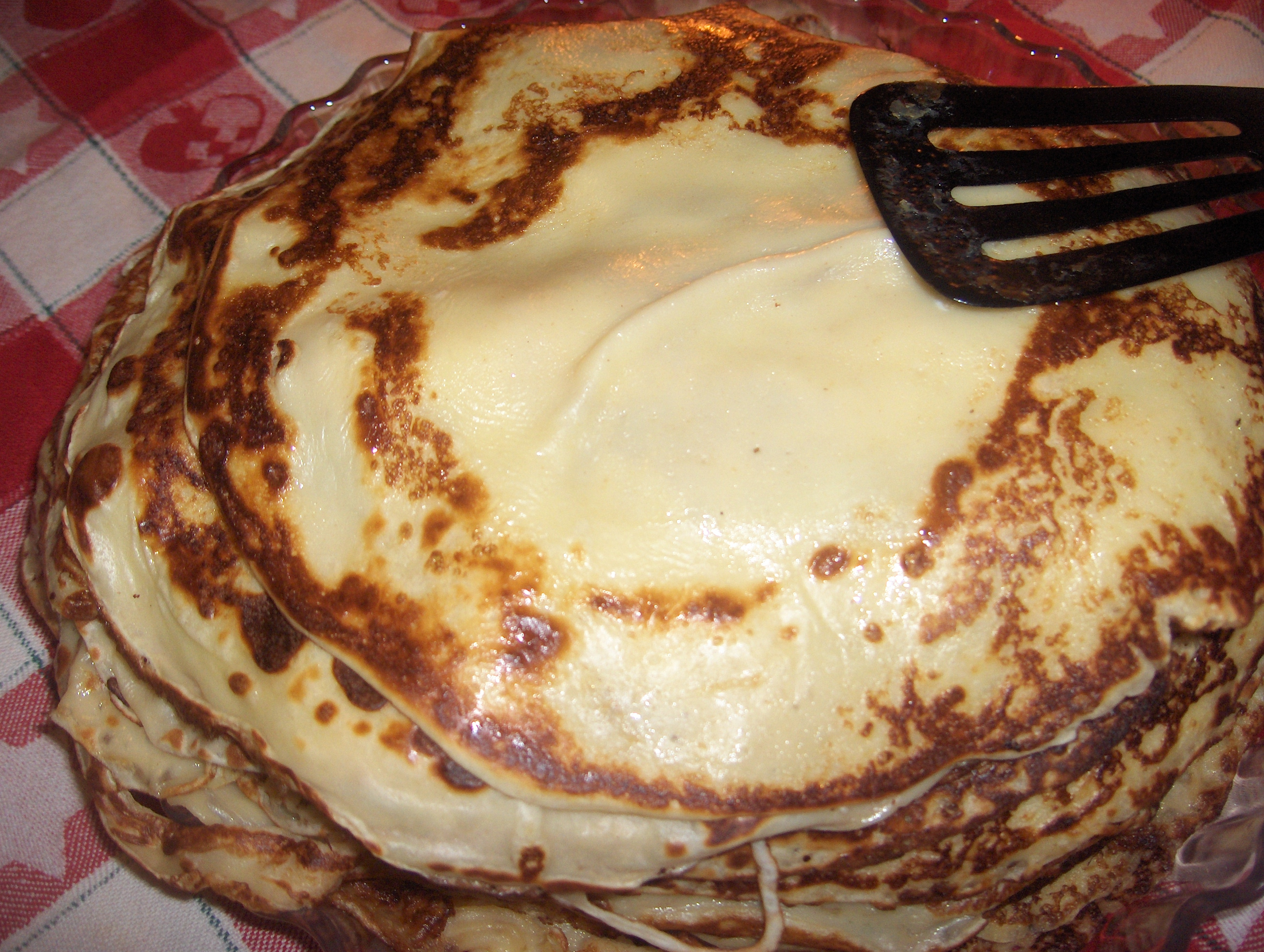 A heap of pancakes in Sweden. My mother cooked them.